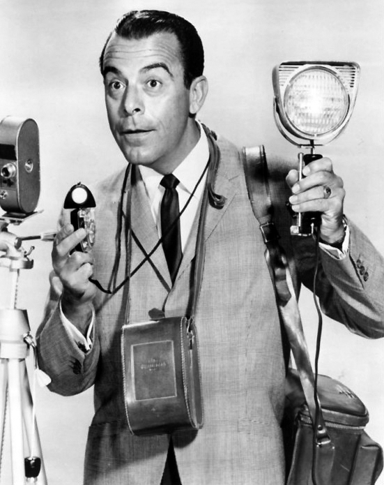 Publicity photo of George Fenneman for Your Funny, Funny Films series premiere. This photo was produced prior to 1978 and has no copyright markings. It was created for distribution to the media (newspapers and magazines). The image was meant to attract attention and publicity for the personalities pictured, the show they were part of and the network it was on. The aim of this image was exactly the same as the publicity shots/stills done in the film industry. Film production expert Eve Light Honthaner in The Complete Film Production Handbook, (Focal Press, 2001 p. 211.): "Publicity photos (star headshots) have traditionally not been copyrighted. Since they are disseminated to the public, they are generally considered public domain, and therefore clearance by the studio that produced them is not necessary." "There is a vast body of photographs, including but not limited to publicity stills, that have no notice as to who may have created them." (The Professional Photographer's Legal Handbook By Nancy E. Wolff, Allworth Communications, 2007, p. 55.) Creative Clearance-Publicity photos "Publicity Photos (star headshots) older publicity stills have usually not been copyrighted and since they have been disseminated to the public, they are generally considered public domain and therefore there is no necessity to clear them with the studio that produced them (if you can even determine who did)."